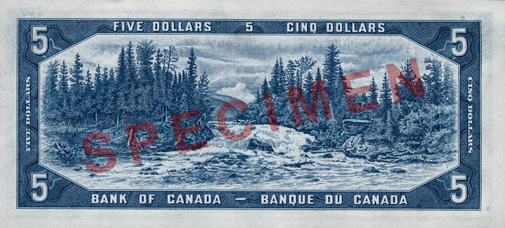 Canada 1954 Series $5 banknote, reverse, original "Devil's Head" printing. Image depicts Otter Falls at mile 996 of the Alaska Highway, the engraving for which was created by C. Gordon Yorke.